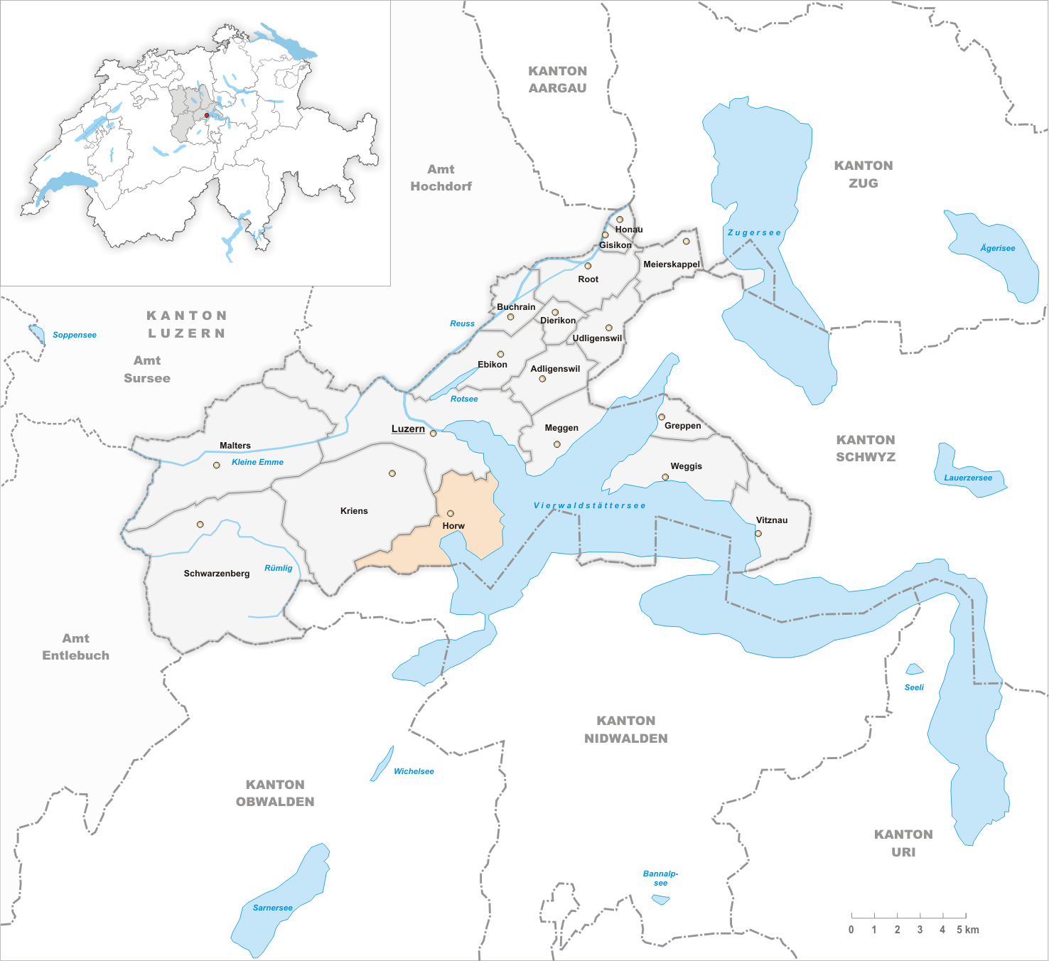 Municipality Horw